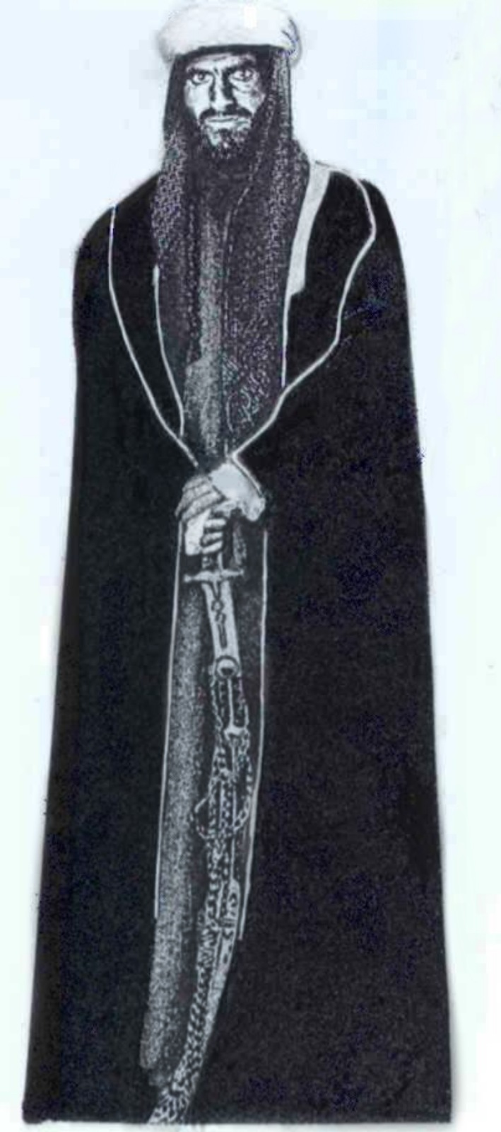 Sheik Sultan bin najd Al-Otaibi the leader of Ikwan